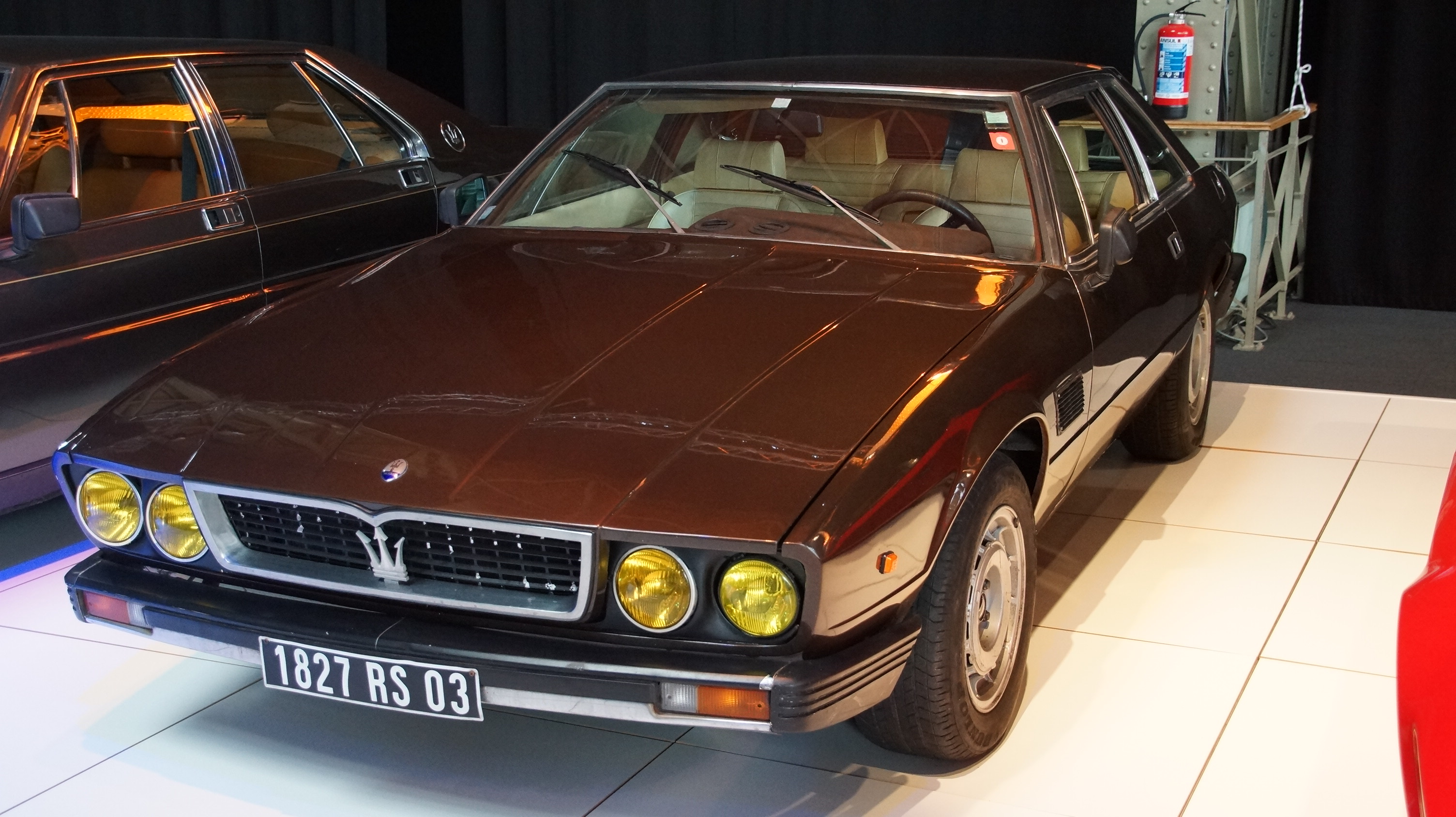 Maserati Kyalami at the 100 Years Maserati show at Autoworld Brussels